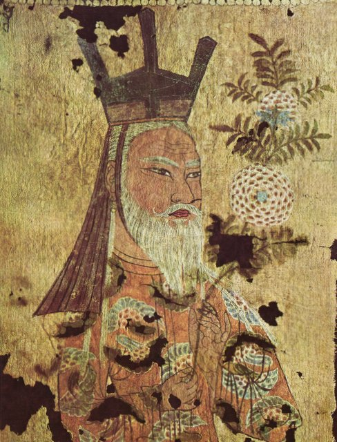 Uighur Khagan ئۇيغۇرچە / Uyghurche: Uyghur Hakanliri